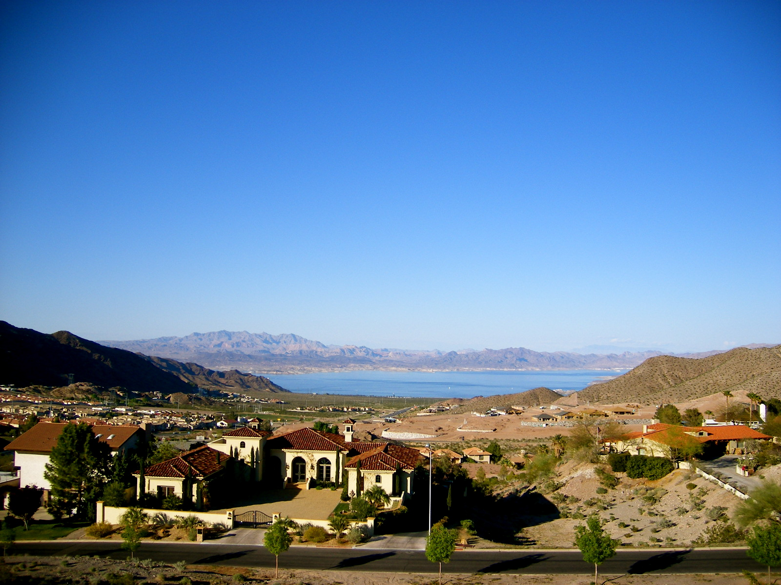 New subdivision in Boulder City, NV